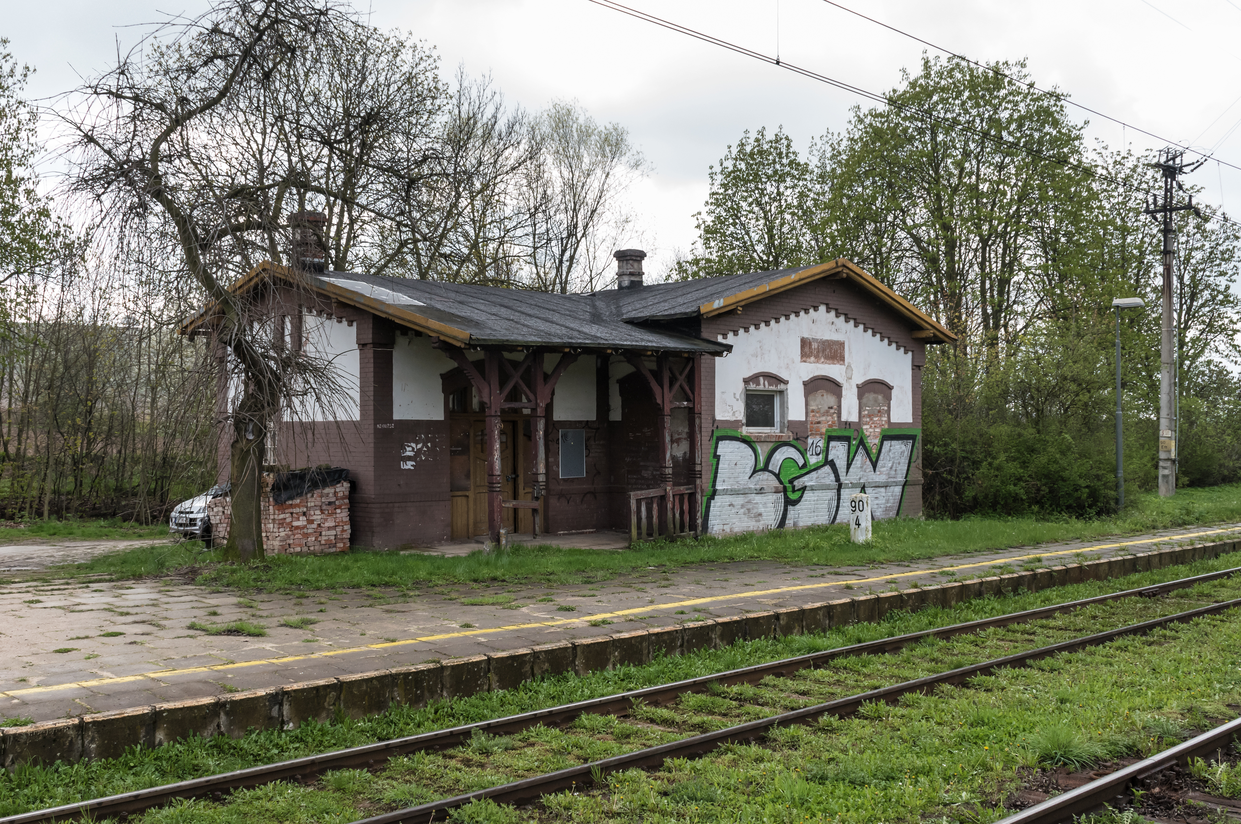 Ławica train station